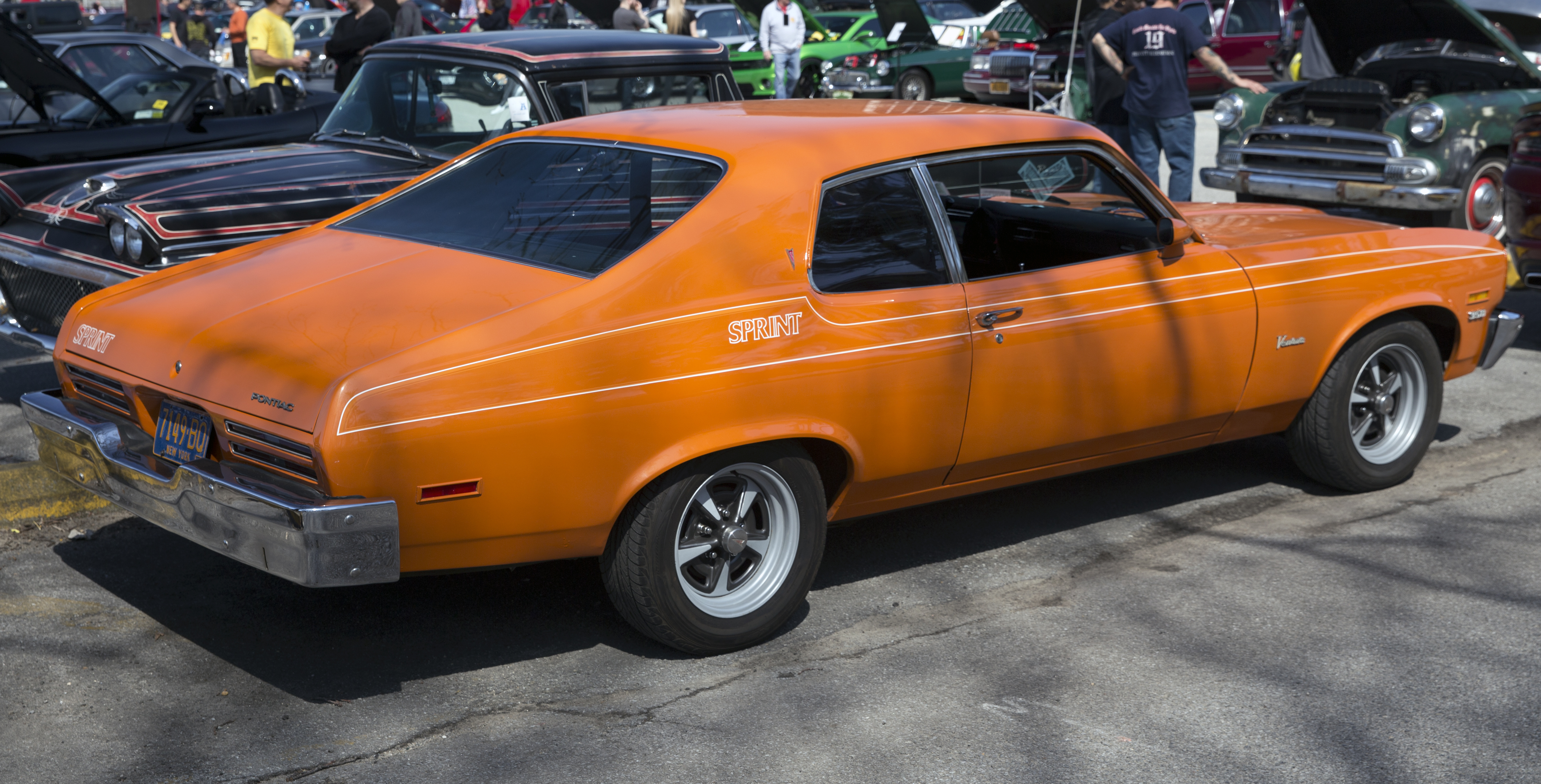 A 1973 Pontiac Ventura Sprint 2-door Coupe at the Belmont Race Track. Built at Willow Run, MI, this one has a two-barrel 350 V8 with a single exhaust.